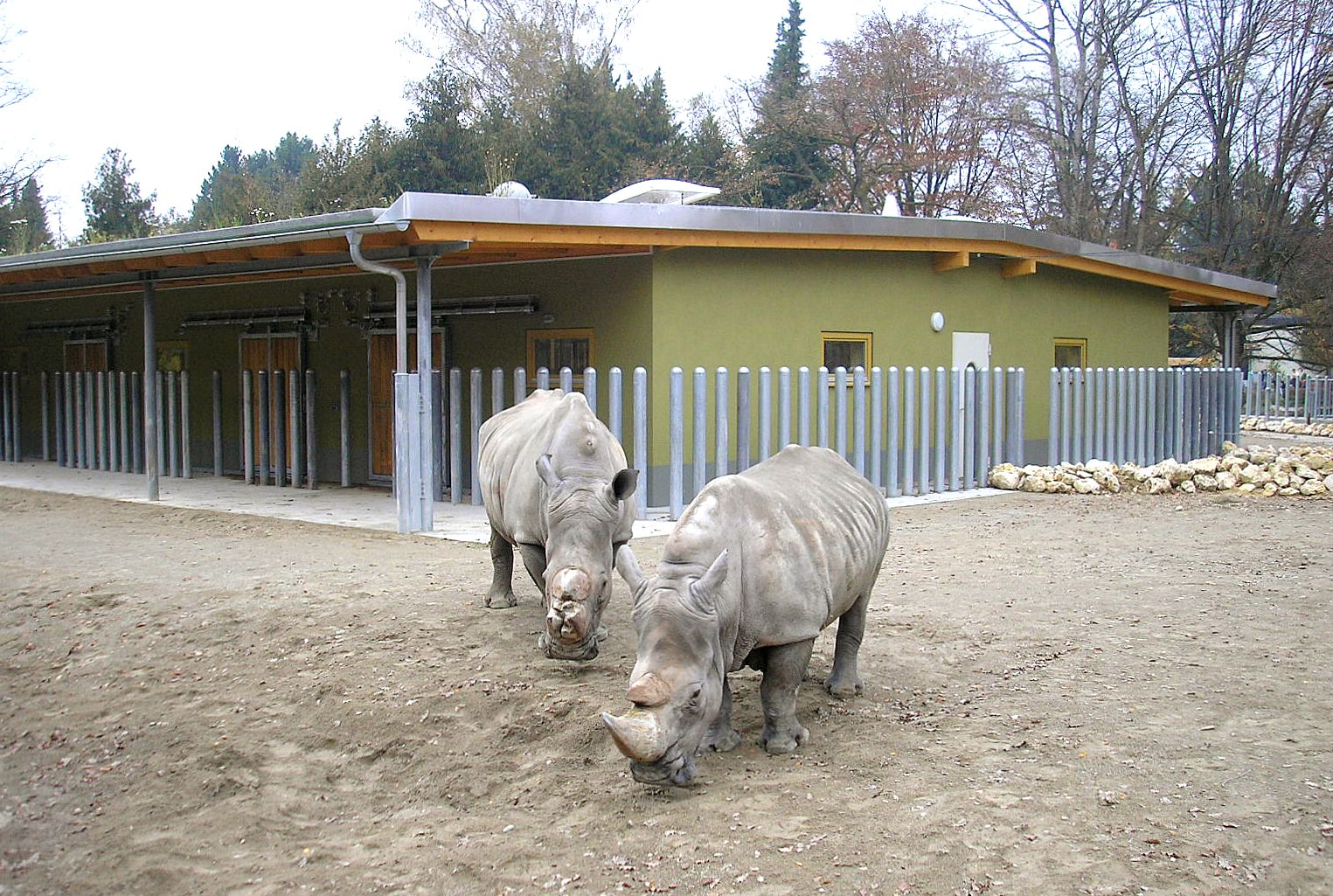 Augsburg Zoo (Bavaria, Germany). The new stable (2008) of the rinos.